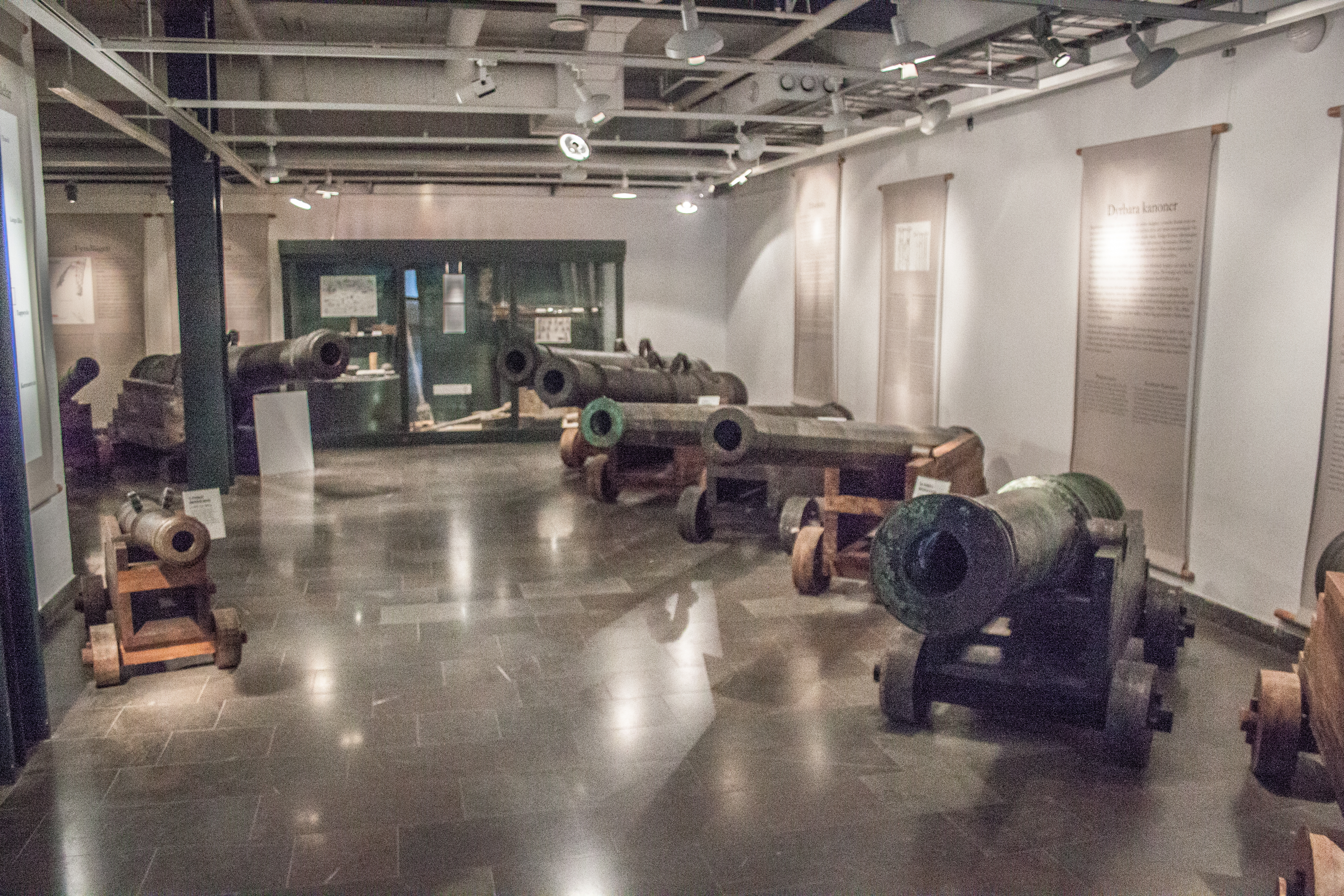 Cannons of the Kronan ship